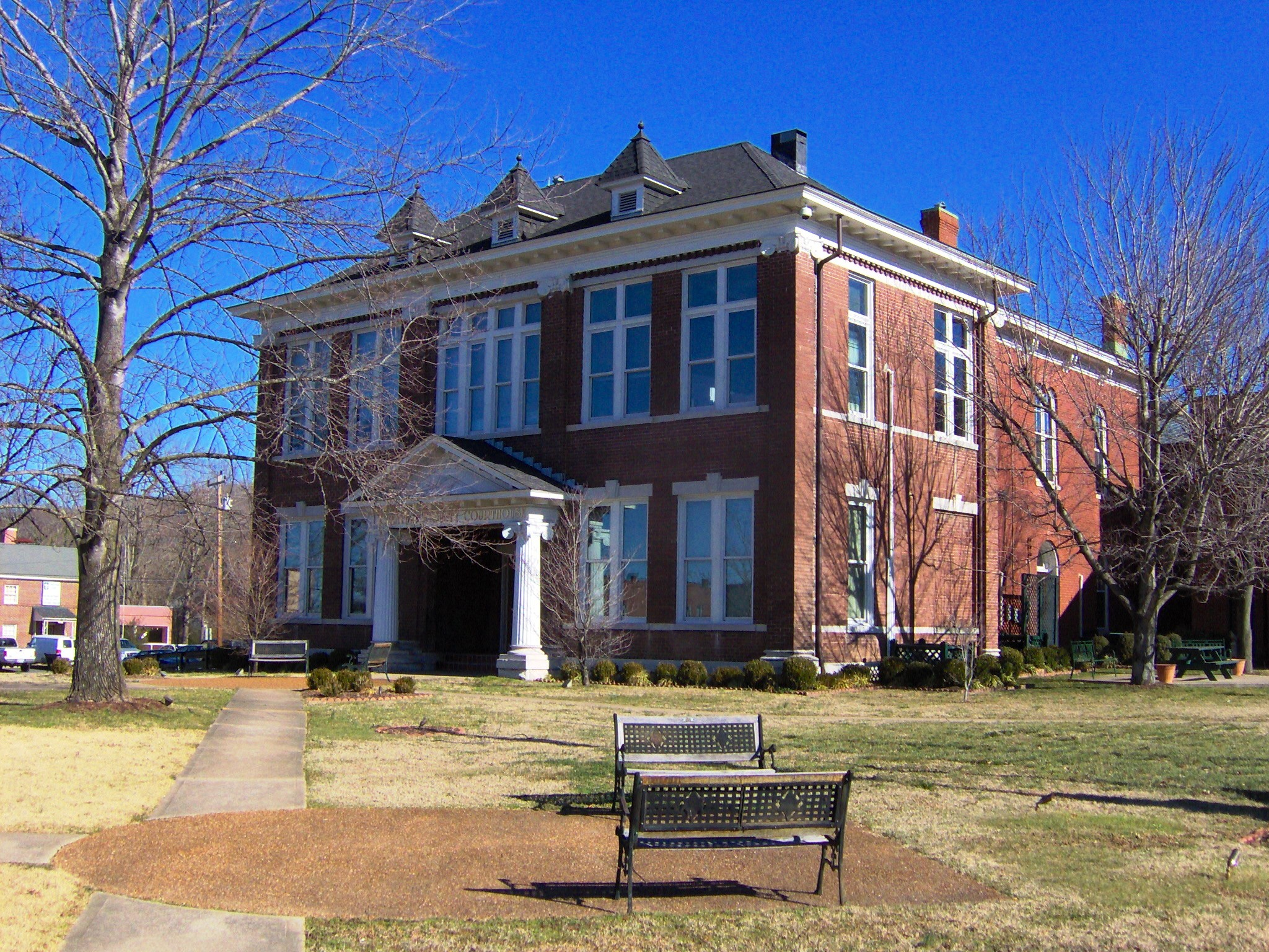 Cheatham County Courthouse in Ashland City, Tennessee, in the southeastern United States. The courthouse was originally built in 1869 at a cost of $12,000. The front addition was designed by architect R.E. Turbeville and completed in 1914. The courthouse was added to the National Register of Historic Places in 1976.